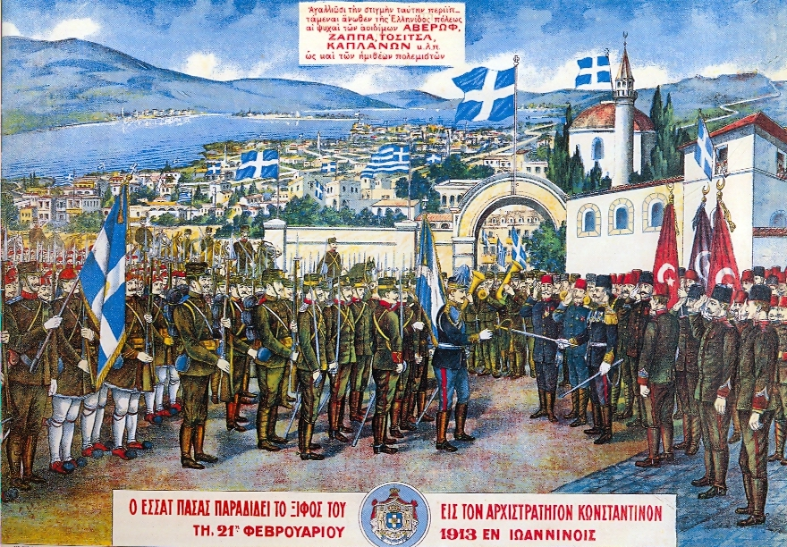 Greek lithograph of the Surrender of Ioannina by Esad Pasha to the Greek Crown Prince Constantine during the First Balkan War.